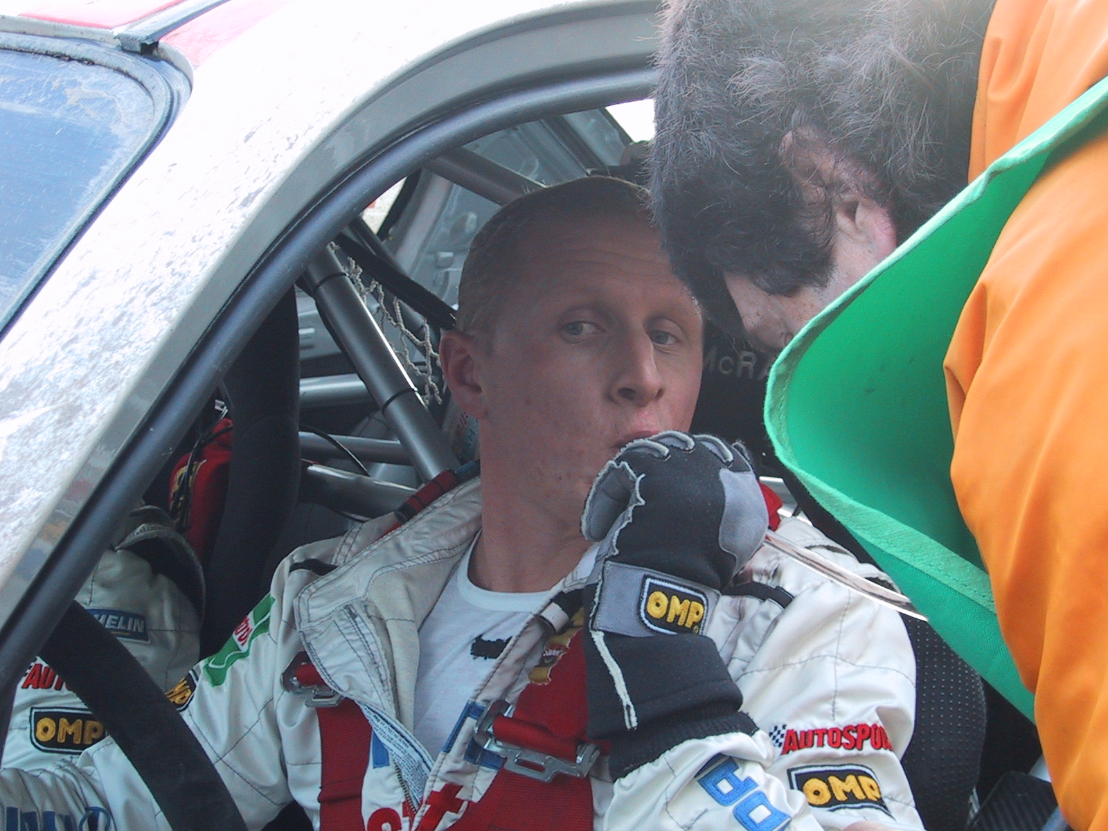 Alister McRae at the end of a stage on the 2000 Rally GB